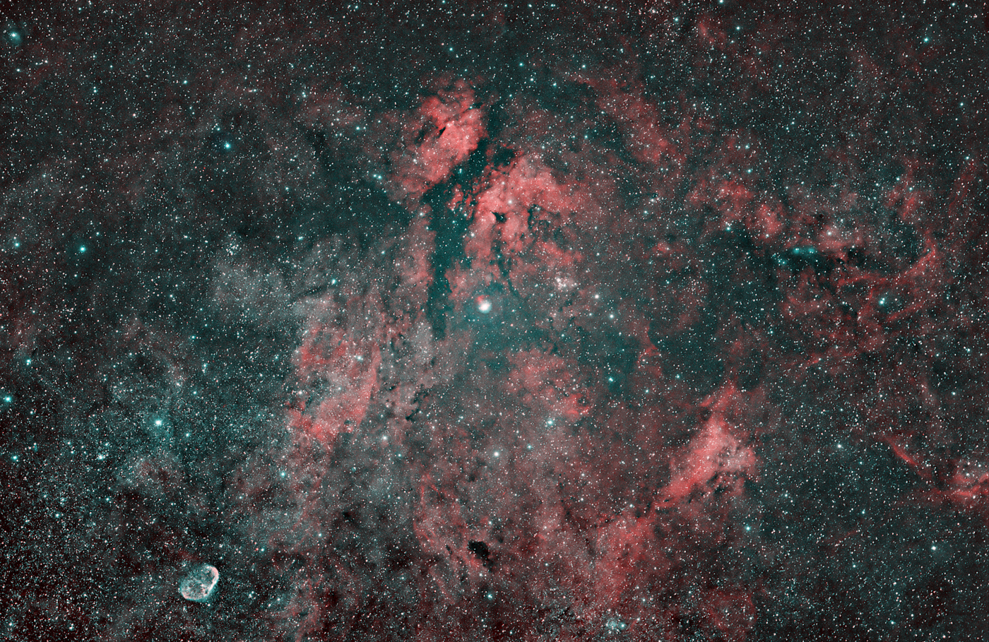 synthetic RGB of the Sadr Region Erik Larsen said: 30 10min subs with OIII filter and 25 10min subs with 6nm Ha filter at ISO 1600 stacked in DSS then adjusted in PS CS2. Canon 500D(modded) , Orion Atlas mount and the lens was the Nikon 180ED @ f/2.8 and a 7x40mm finder as a guide scope. includes IC 1318, NGC 6888, IC 1311, NGC 6914, NGC 6910, IC 4996, NGC 6913, w:34 Cygni, Sadr (γ Cygni), w:40 Cygni